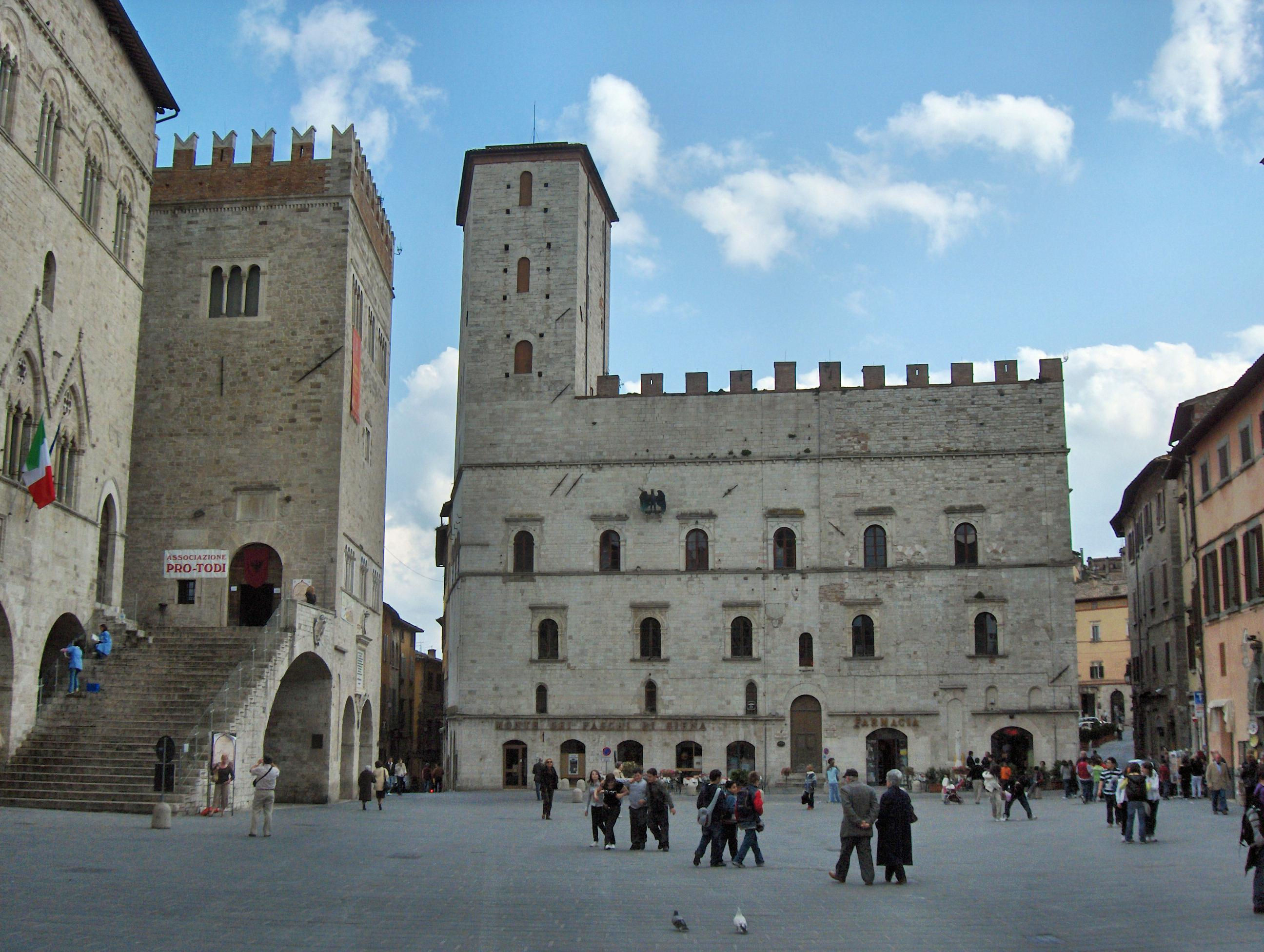 The Piazza del Popolo; left: Palazzo dei Priori; in front : Palazzo del Popolo; Todi, Italy